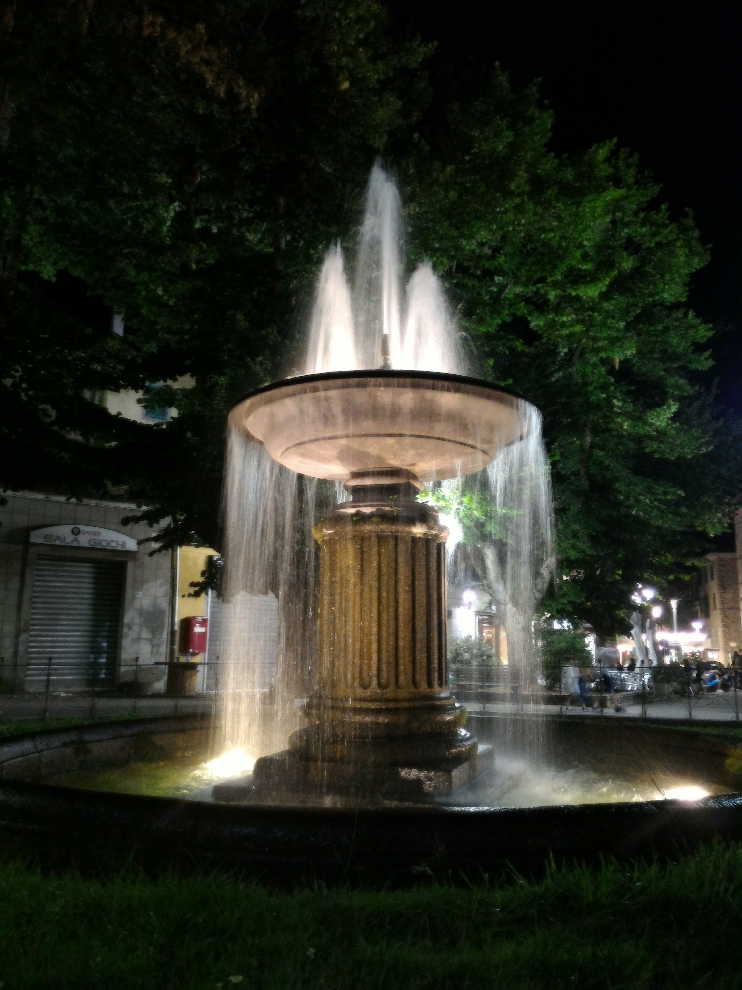 This is a photo of a monument which is part of cultural heritage of Italy.